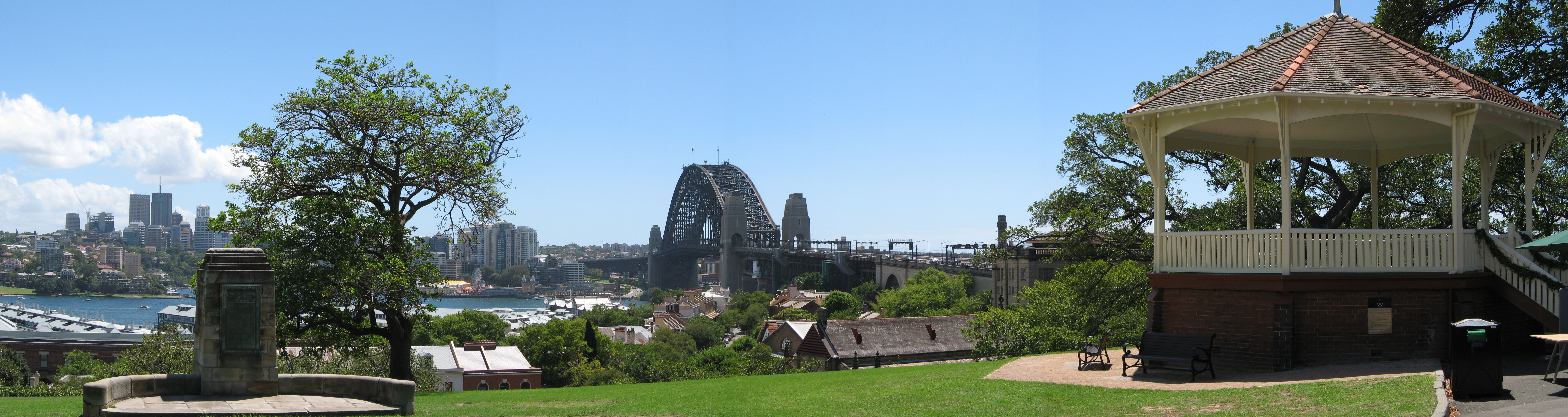 Sydney Harbour Bridge from Observatory Hill, Sydney, Australia.